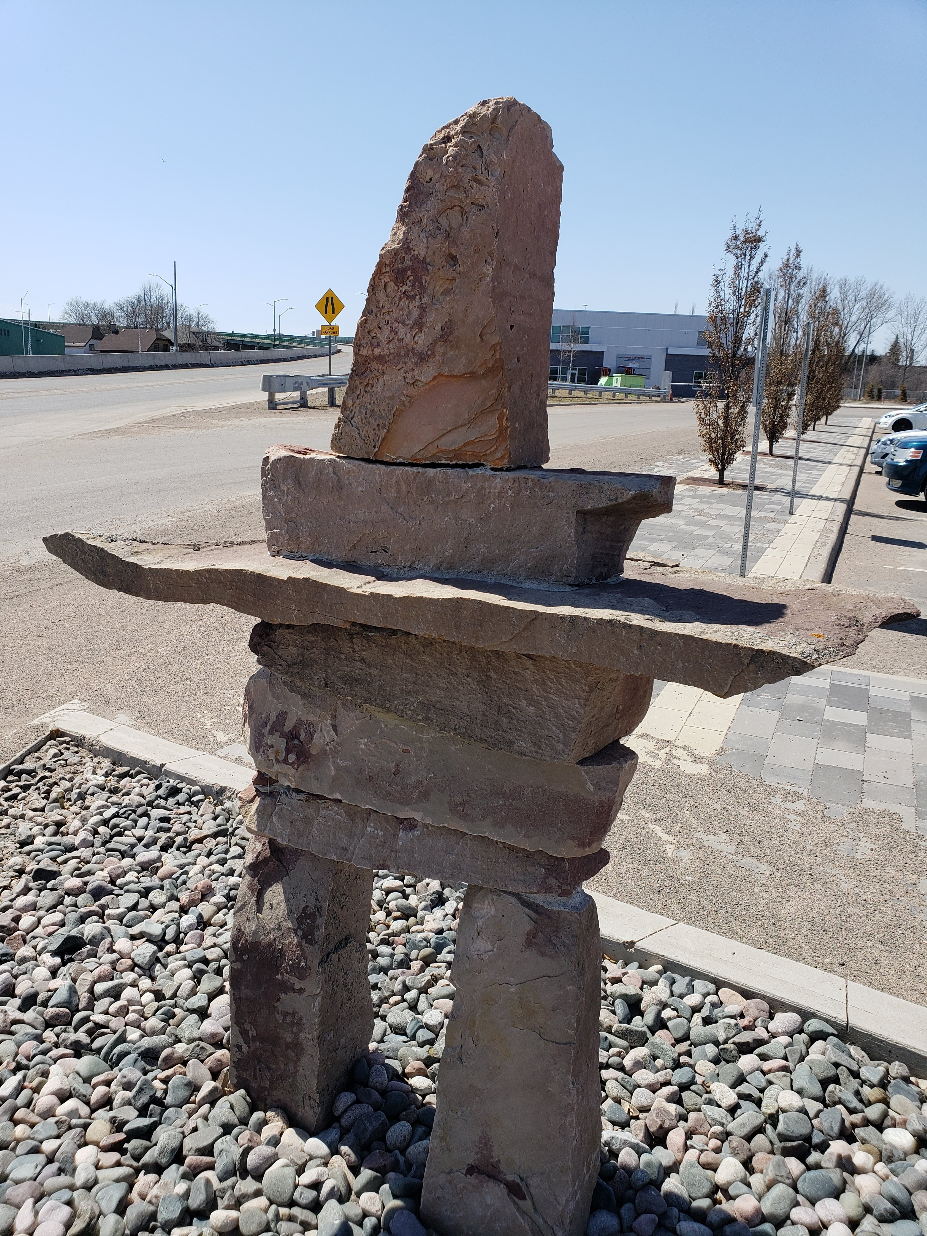 An inuksuk erected at a duty-free store in Sault Ste Marie, Ontario. The entrance to the Sault Ste. Marie International Bridge can be seen in the background.